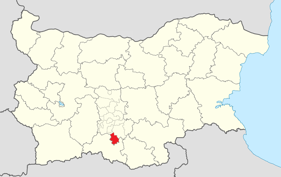 Location map of Laki Municipality within Bulgaria and Plovdiv province